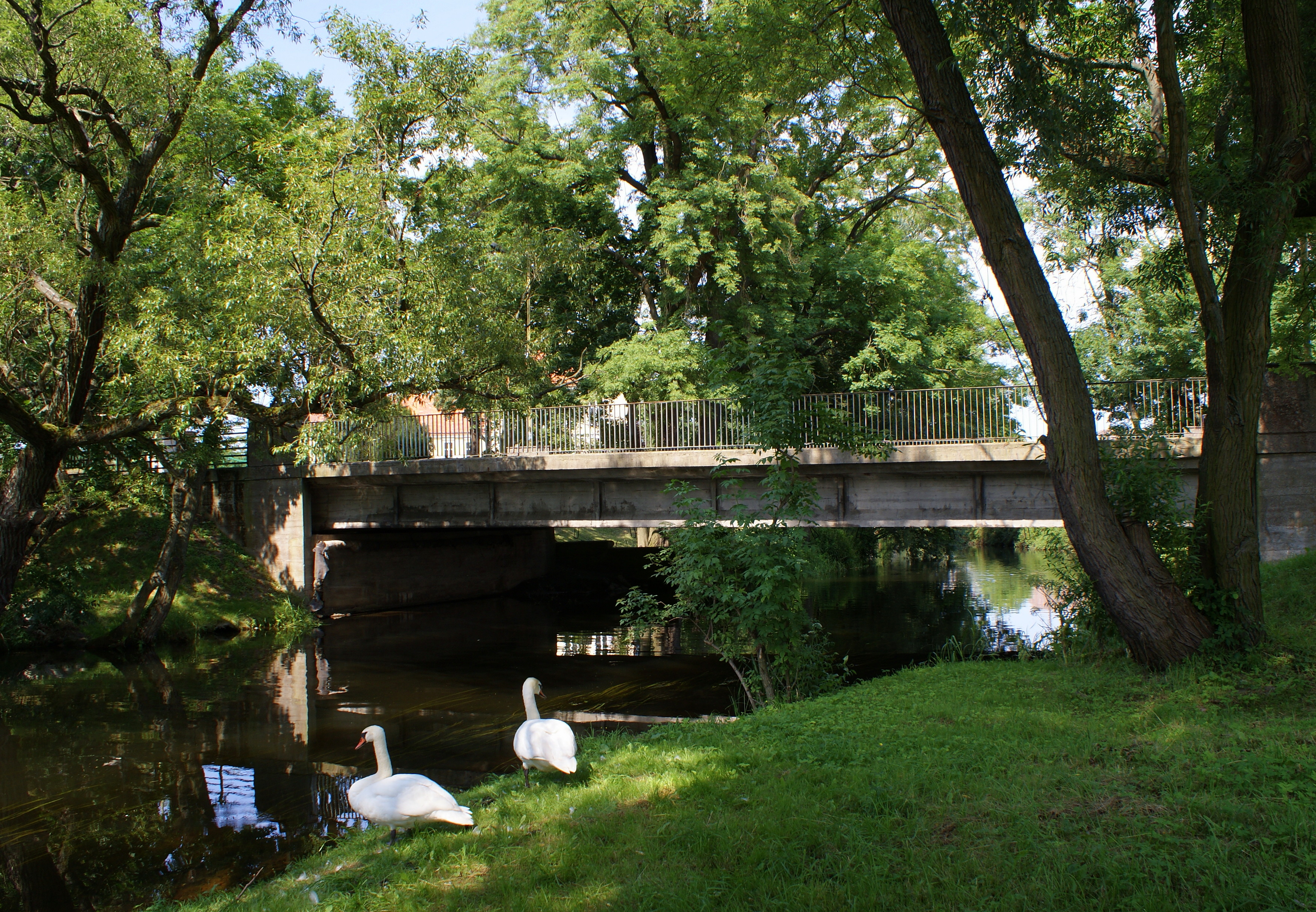 Bridge on the Młynówka (anabranch of the Rega) on Dworcowa Street, in Trzebiatów, Poland